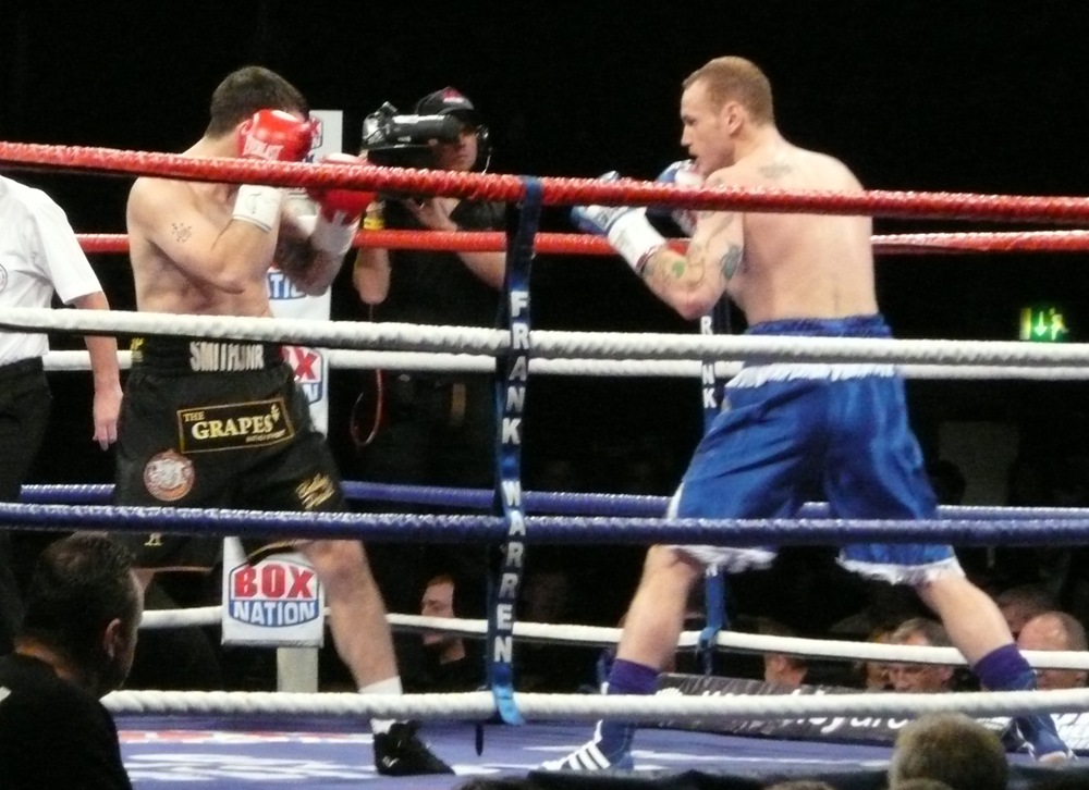 George Groves (right) fighting Paul Smith at Wembley Arena.